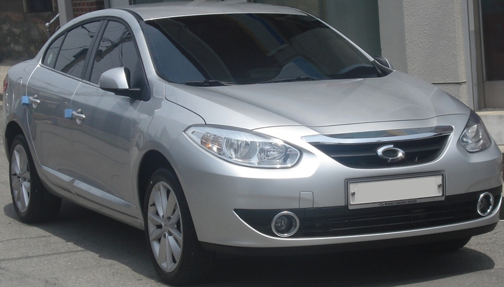 Renault Samsung New SM3